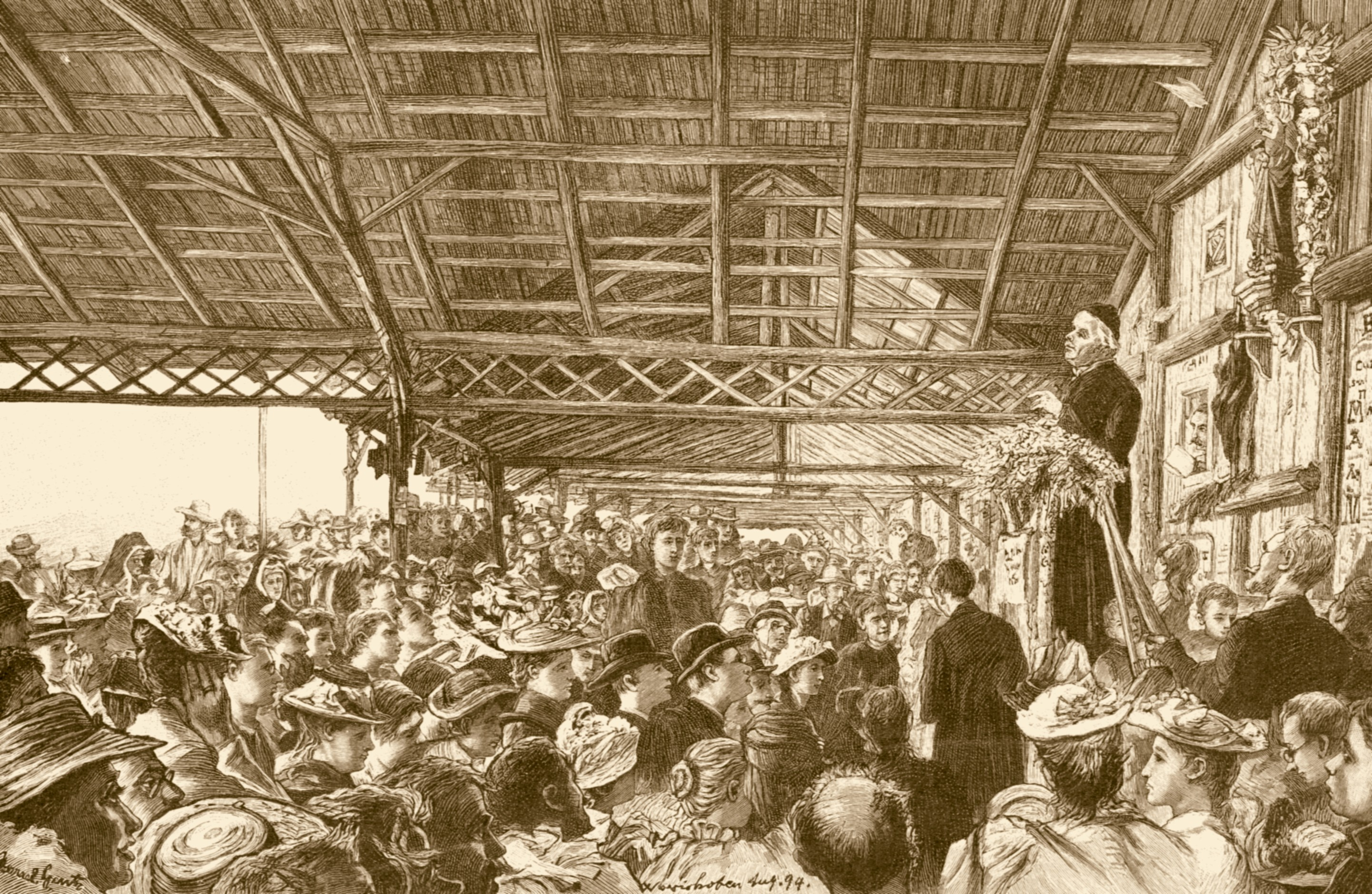 Speech of Sebastian Kneipp at the open hall in Bad Wörishofen